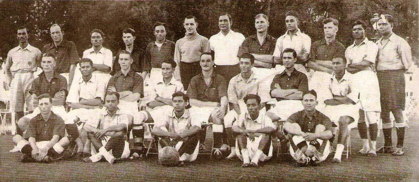 The Indian team in white (as the photograph is in black and white) and eauropean team in black t-shirt together before the 1st july 1938 match at Calcutta, India.